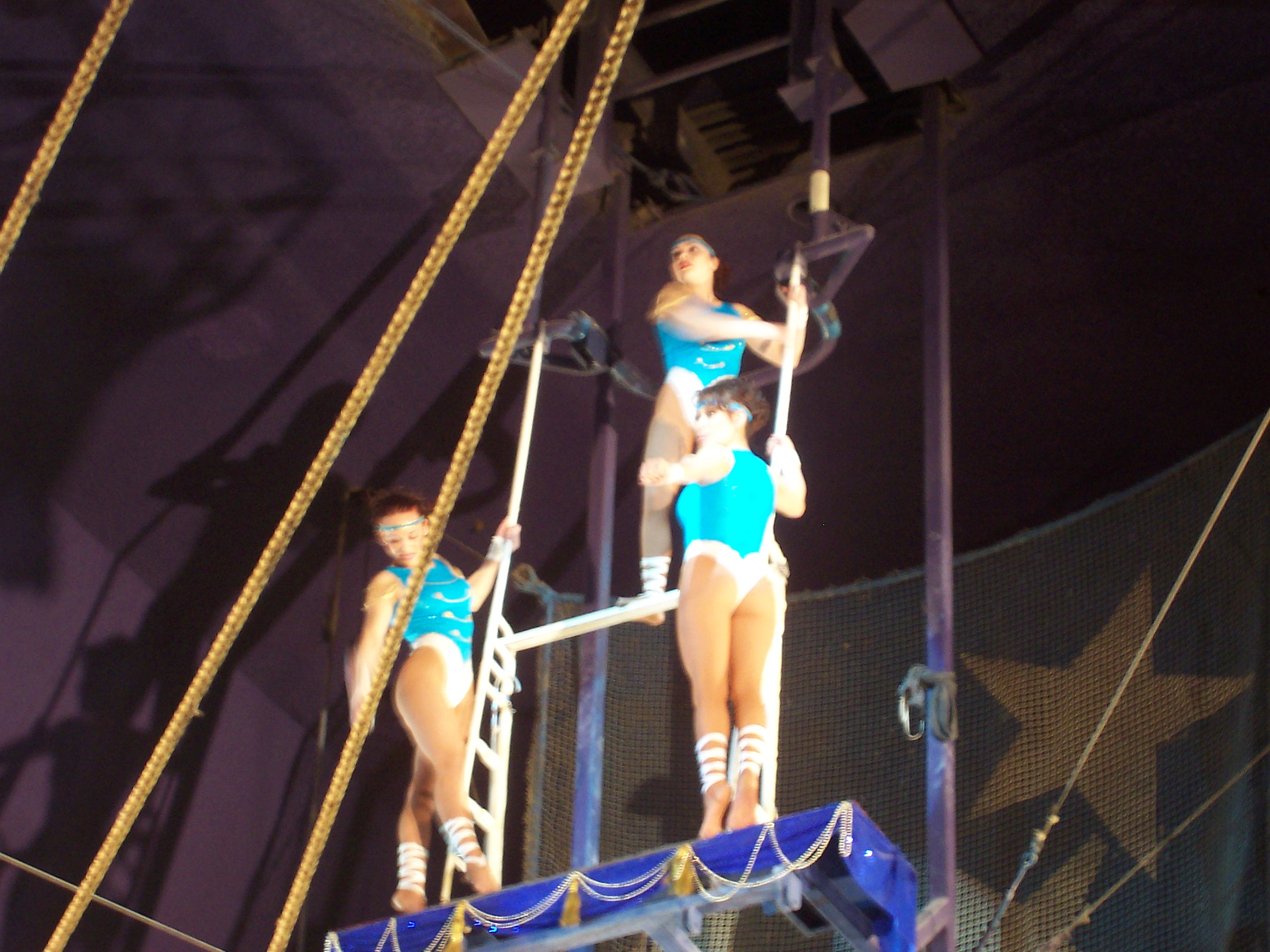 Circus Circus Las Vegas performers in Las Vegas taken March 23, 2005 by User:Michael180 with a Kodak EasyShare CX6330.